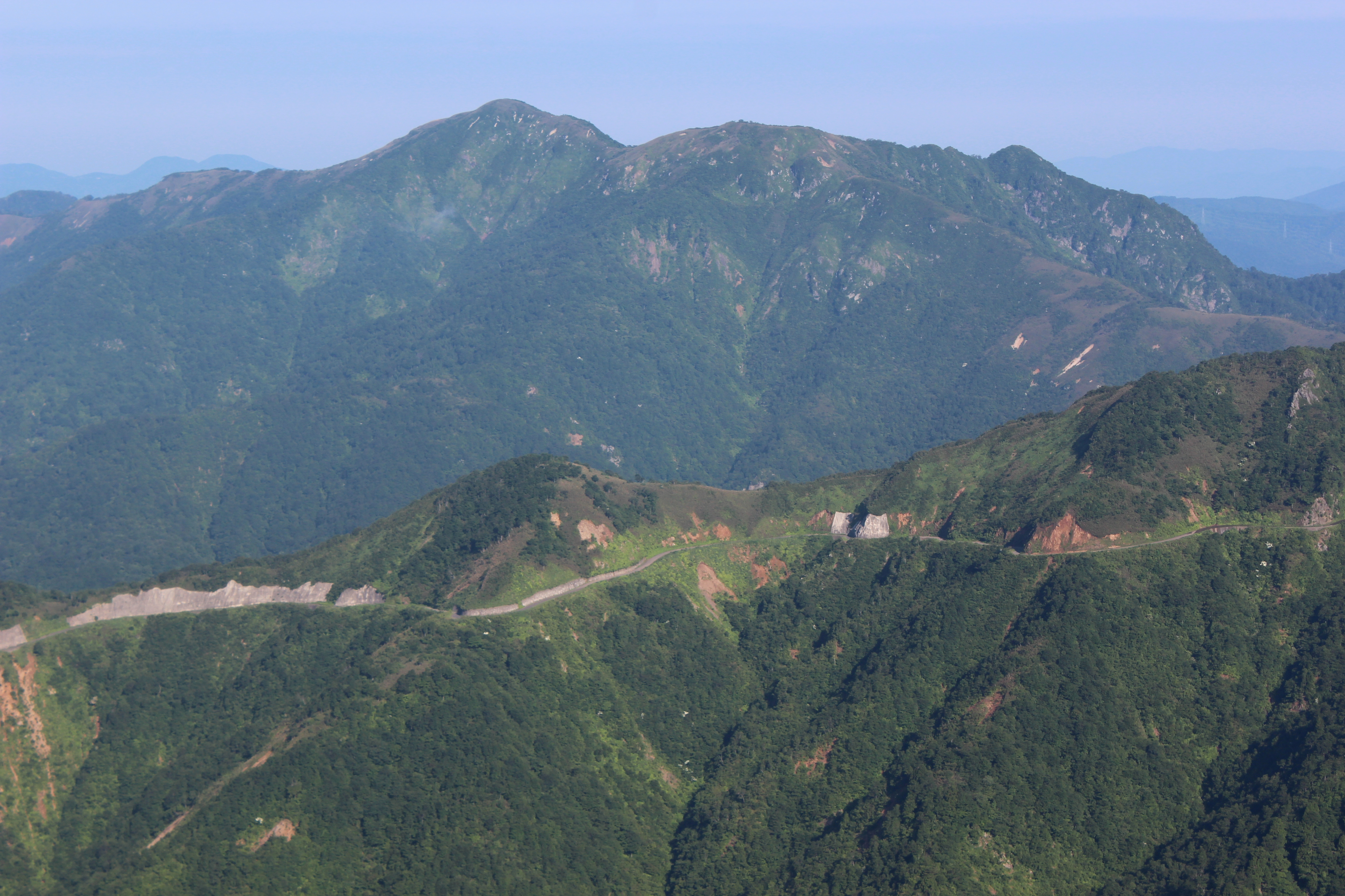 Mount Kanaksa seen from Mount Kanmuri in Fukui Prefecture and Gifu Prefecture, Japan.